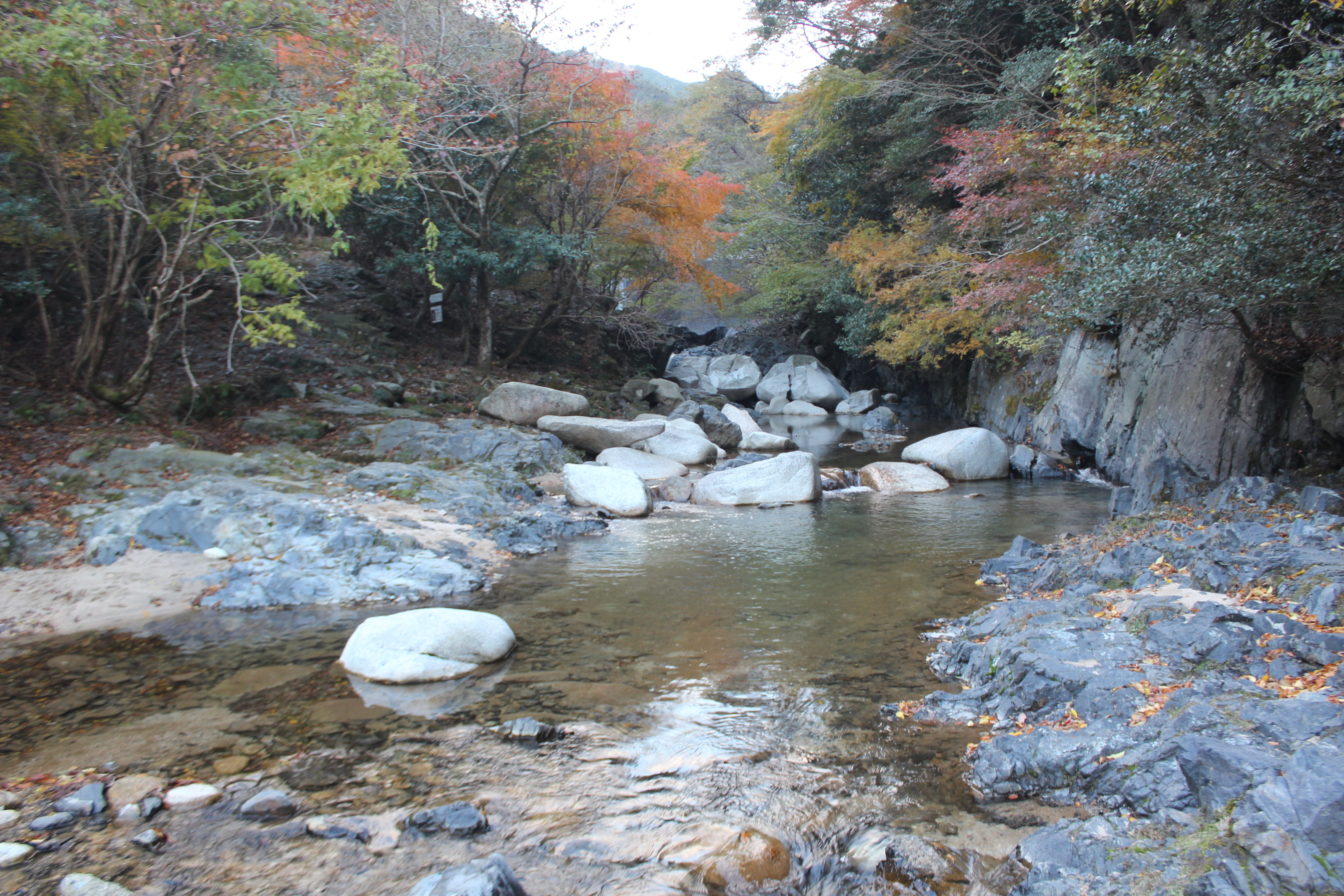 Miyazuma Ravine in Mie prefecture, Japan.